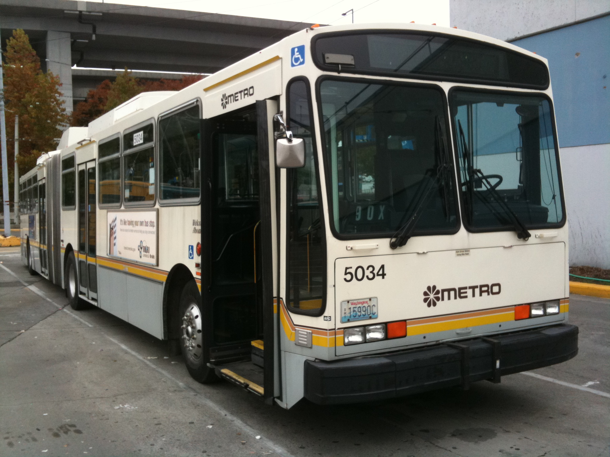 Breda ADPB 350 dual-mode bus, formerly operated by King County Metro (Seattle), being restored by the Metro Employees Historic Vehicle Association. No. 5034 was built in 1989–90 and entered service in September 1990, when the Downtown Seattle Transit Tunnel opened.